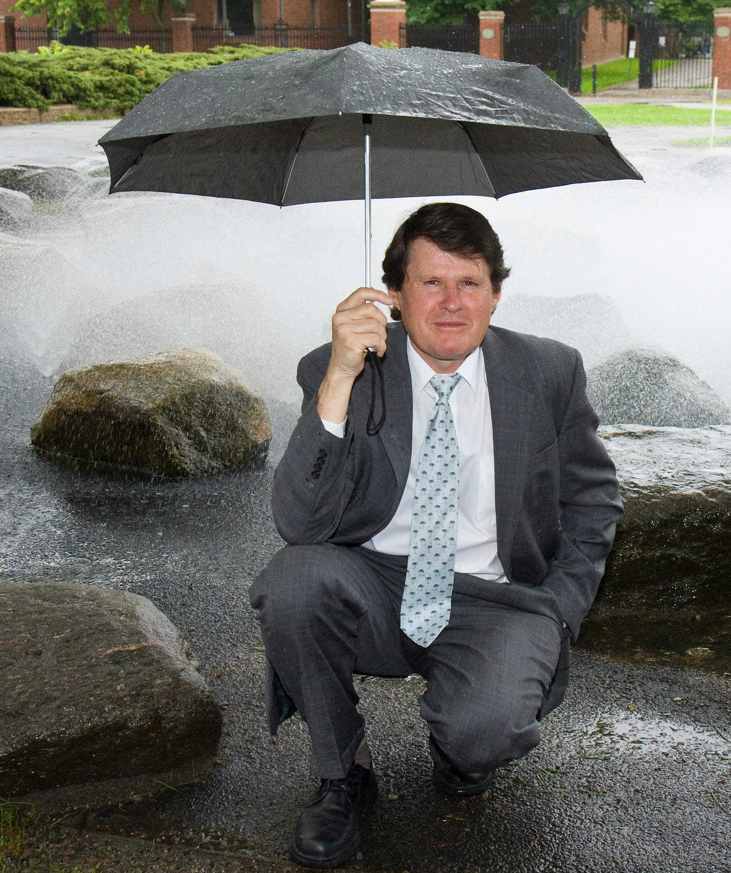 John Briscoe at the Science Center, Harvard University. Photo Credit: Jon Chase/Harvard University News Office.